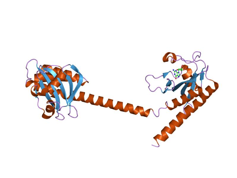 Cartoon representation of the molecular structure of protein registered with 1mc0 code.